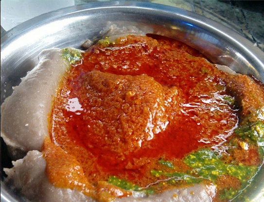 Amala is yam flower stirred in hot water that makes it starchy widely eaten all over Nigeria especially in Yoruba speaking tribe of the country. The Amala is eaten with soup called ewedu and assorted meat This is an image of food from Nigeria